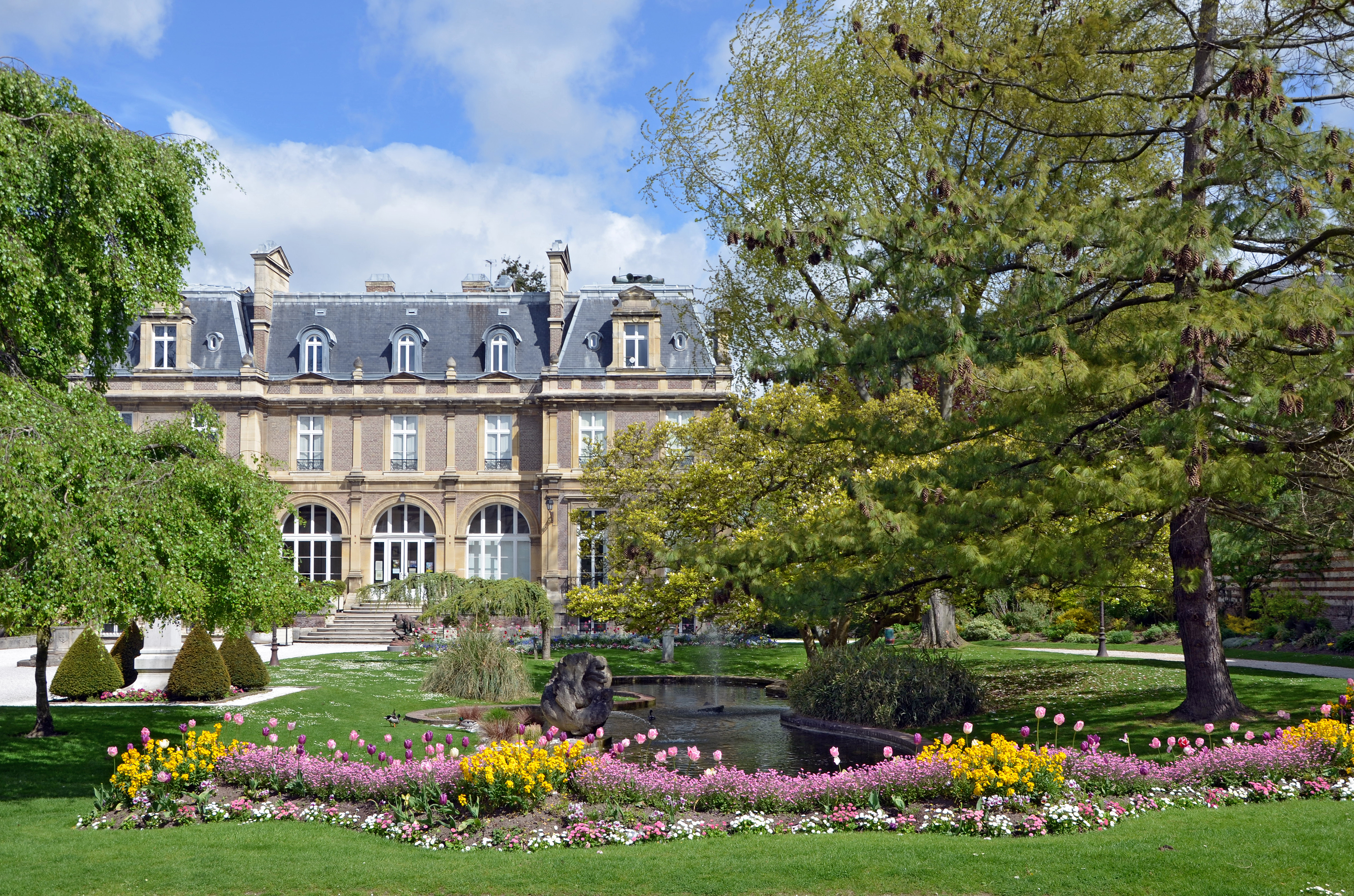 Garden and ancient hotel d'Emonville (now library), Abbeville, Somme, Picardie, France